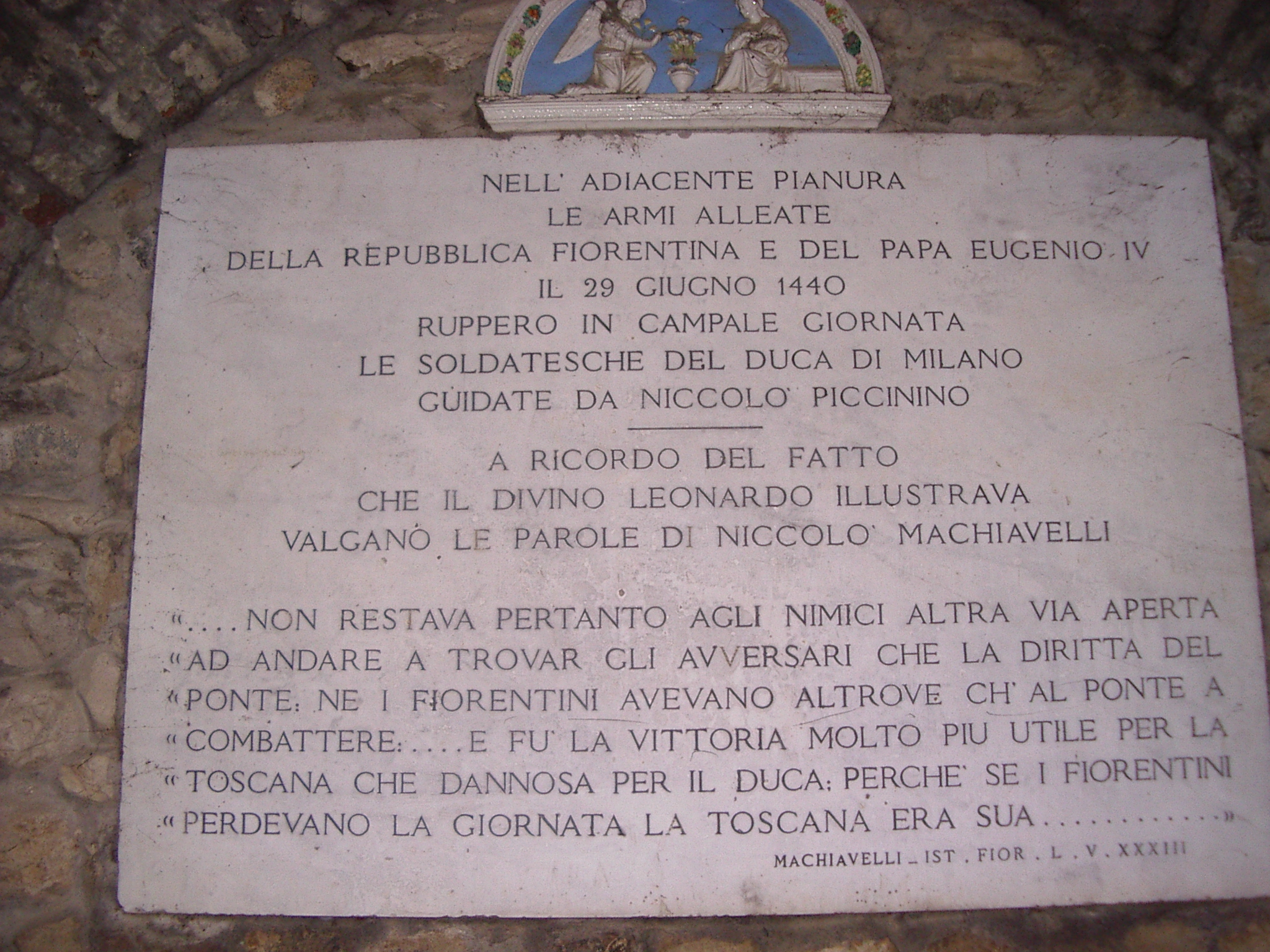 Plaque de la chapelle de la bataille d'Anghiari